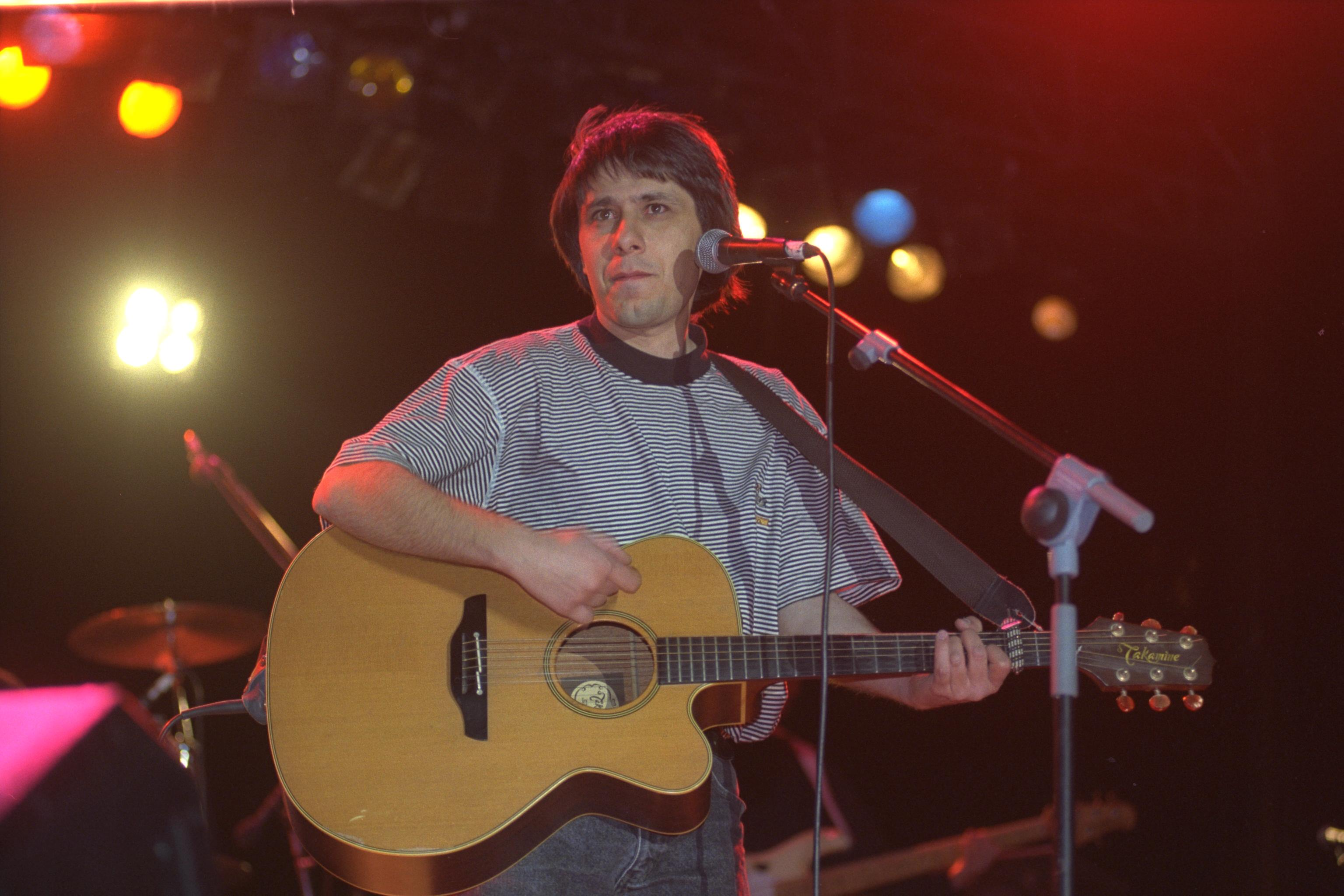 Singer Meir Banai performing at a rock festival in the Red Sea. מאיר בנאי מופיע בפסטיבל ערד Photo: KOREN ZIV.